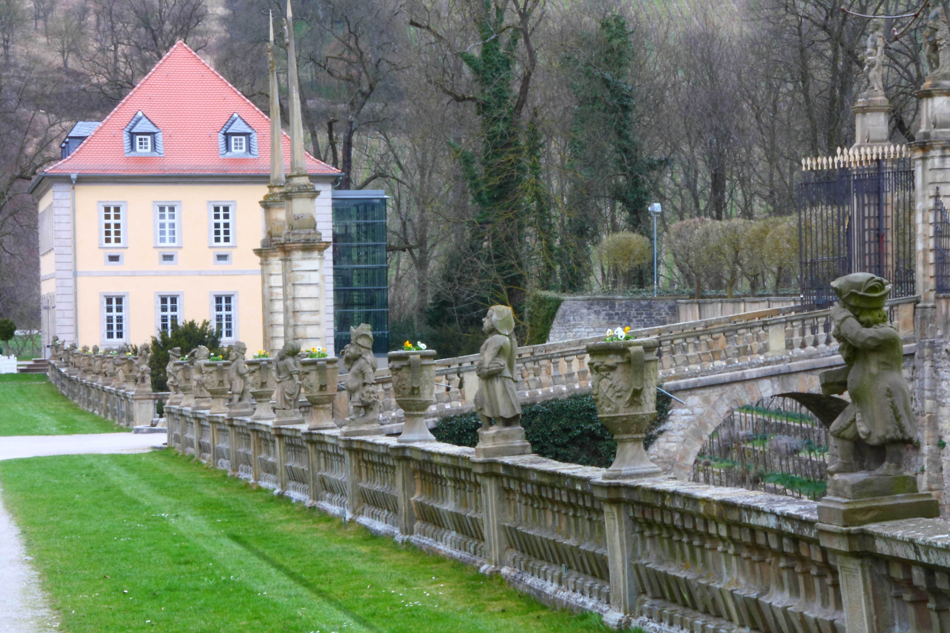 Nearly the whole gnomes gallery, seen from east to west. The building in the back is the so called Gewehrhaus (gun-house), nowadays used for music lessons and concerts.